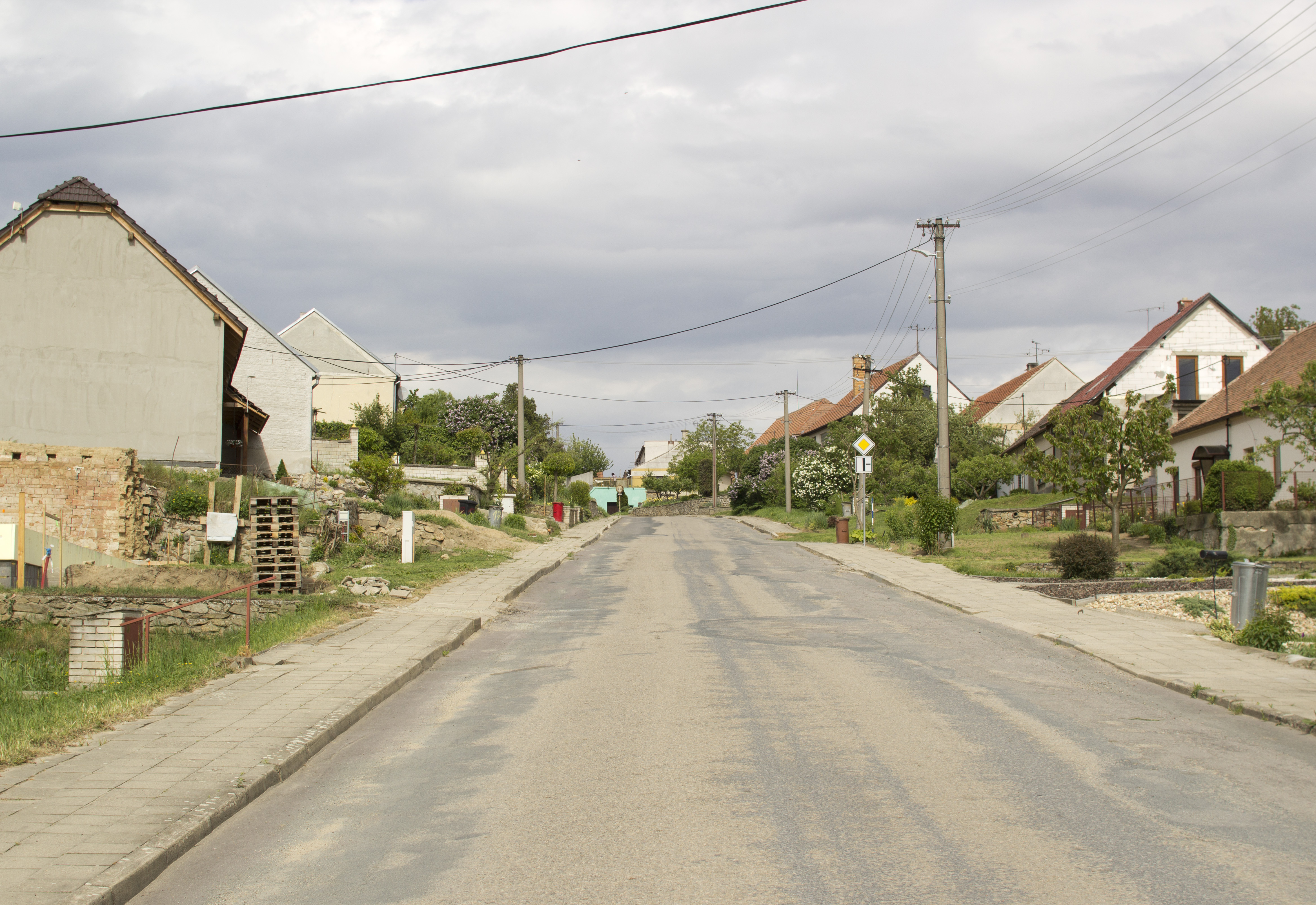 Vedrovice, Znojmo District, South Moravian Region, Czech Republic